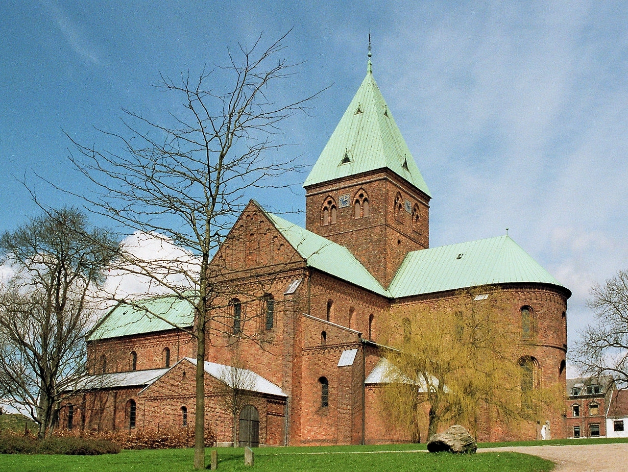 Saint Bendt's Church in Ringsted